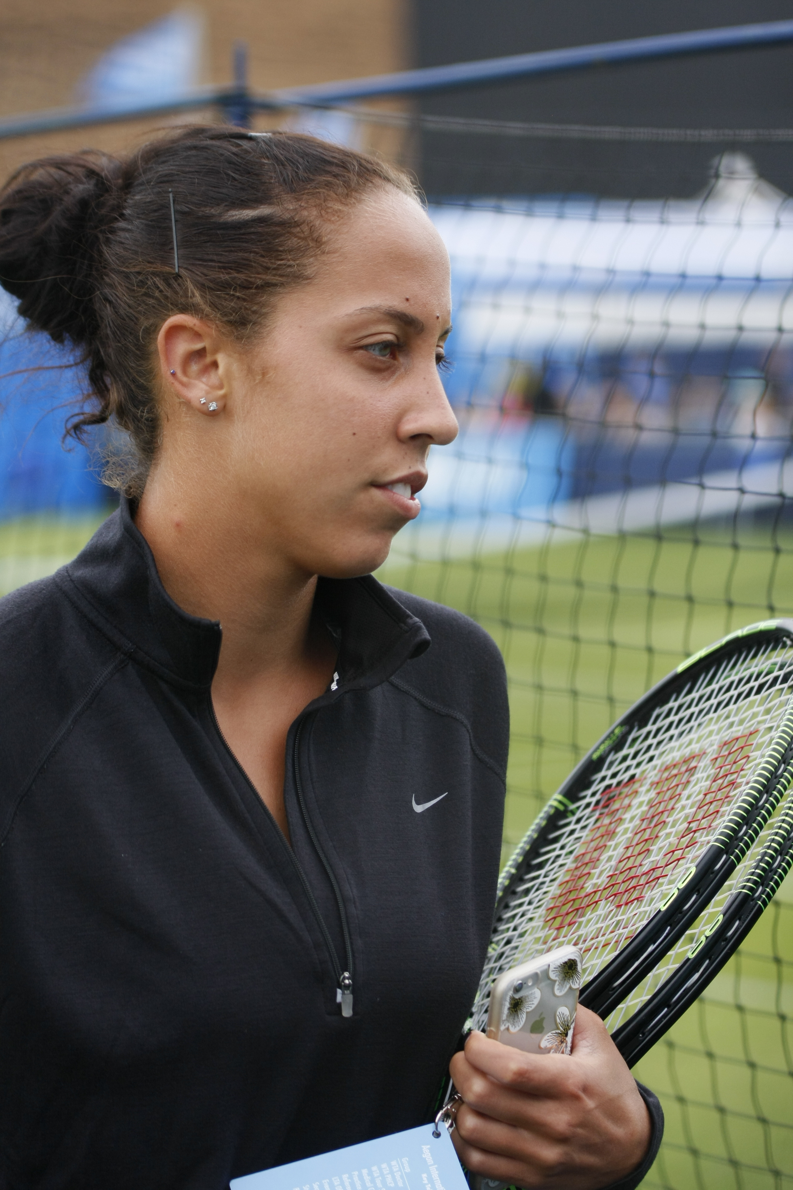 Aegon International Tennis, Devonshire Park, Eastbourne June 2015